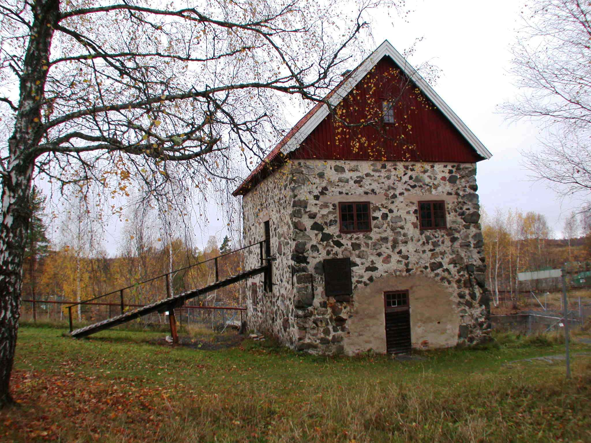 The engine house of Mårten Triewald's steam engine at Dannemora mines, Sweden